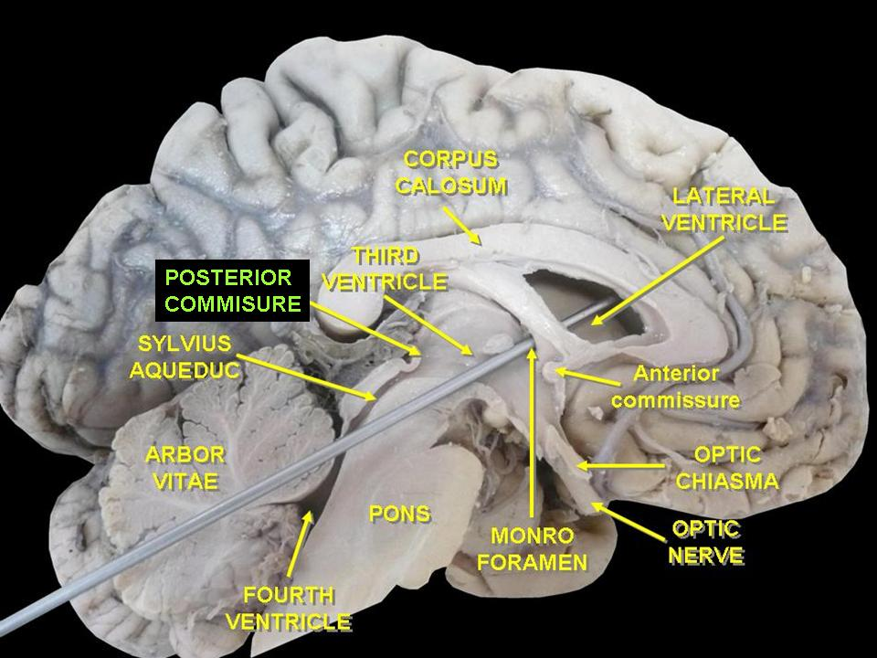 Anatomical dissections